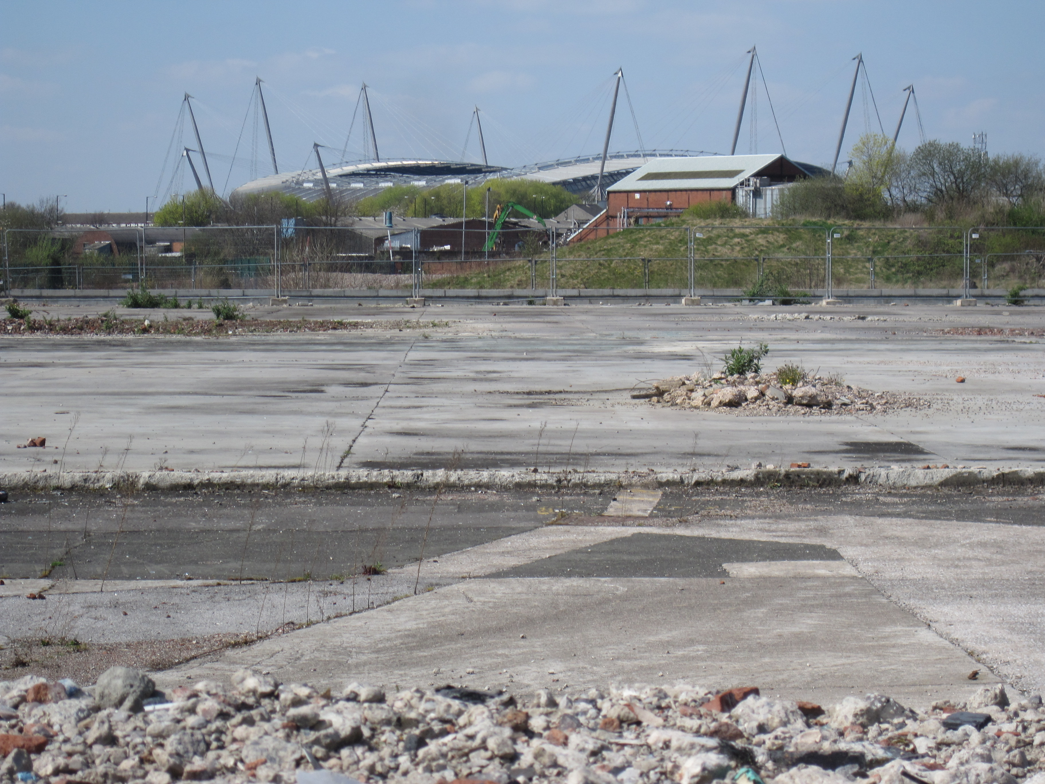 Manchester City Football Club has purchased 59 acres of land and is rumoured to be looking at more.